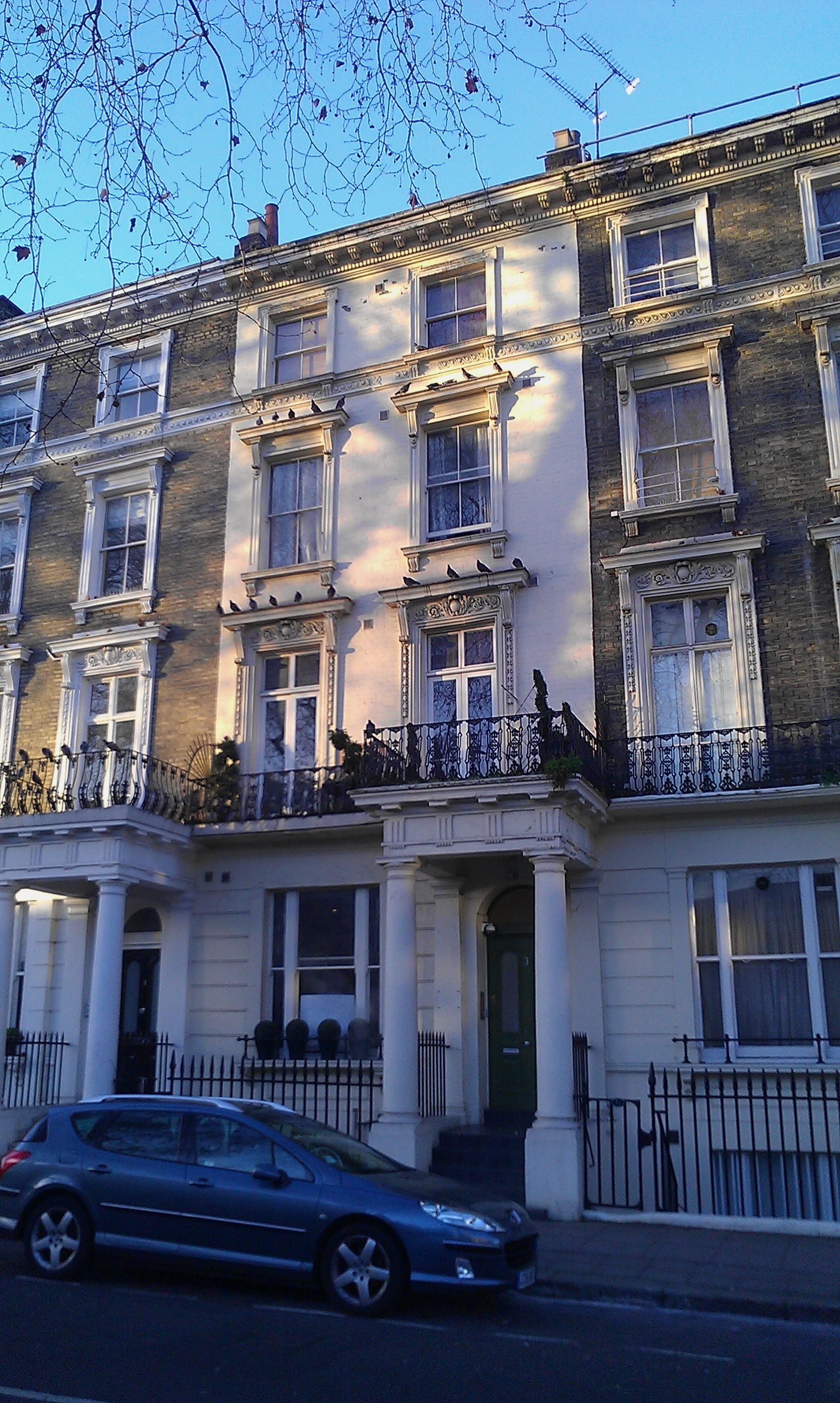 Georgian terraced building at No. 3 Queensborough Terrace in Bayswater, Royal Borough of Kensington and Chelsea. This building housed Dion Fortune's Society of Inner Light from 1924 until her death.